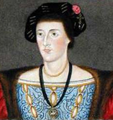 Gerald FitzGerald, 9th Earl of Kildare